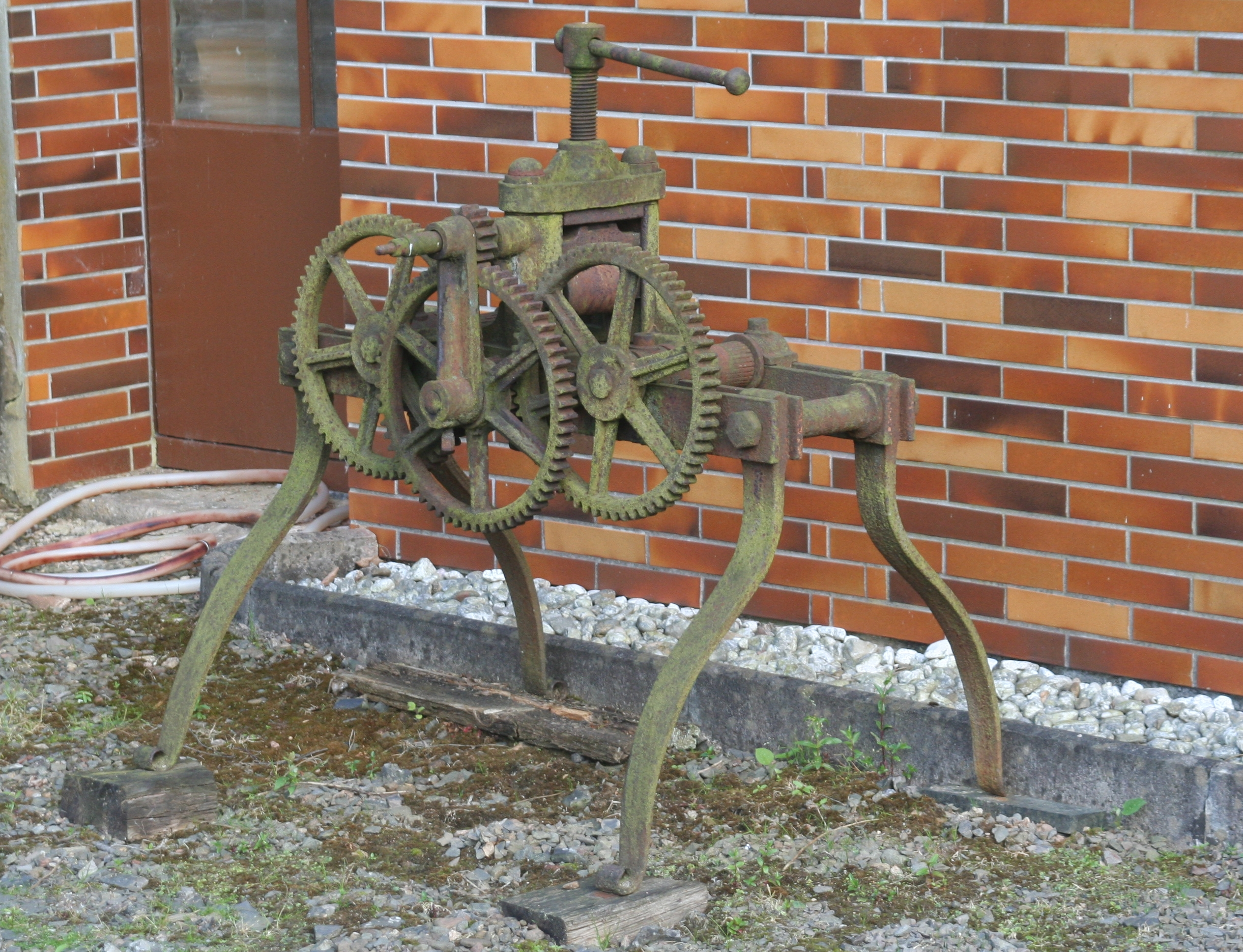 Presumably a bending machine for cask bands. round bending machine in a village in Northern Hesse, Germany.